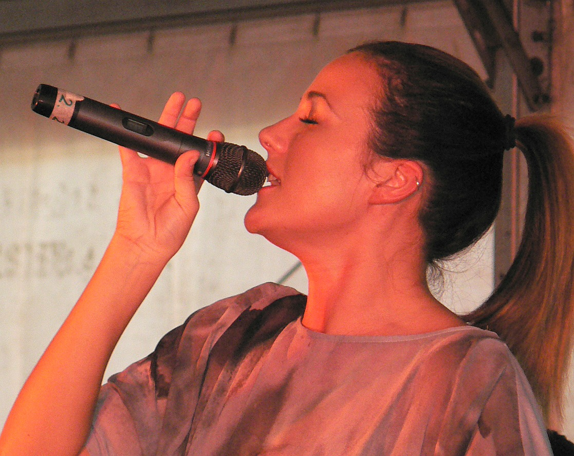 Janicsák Veca (2012)